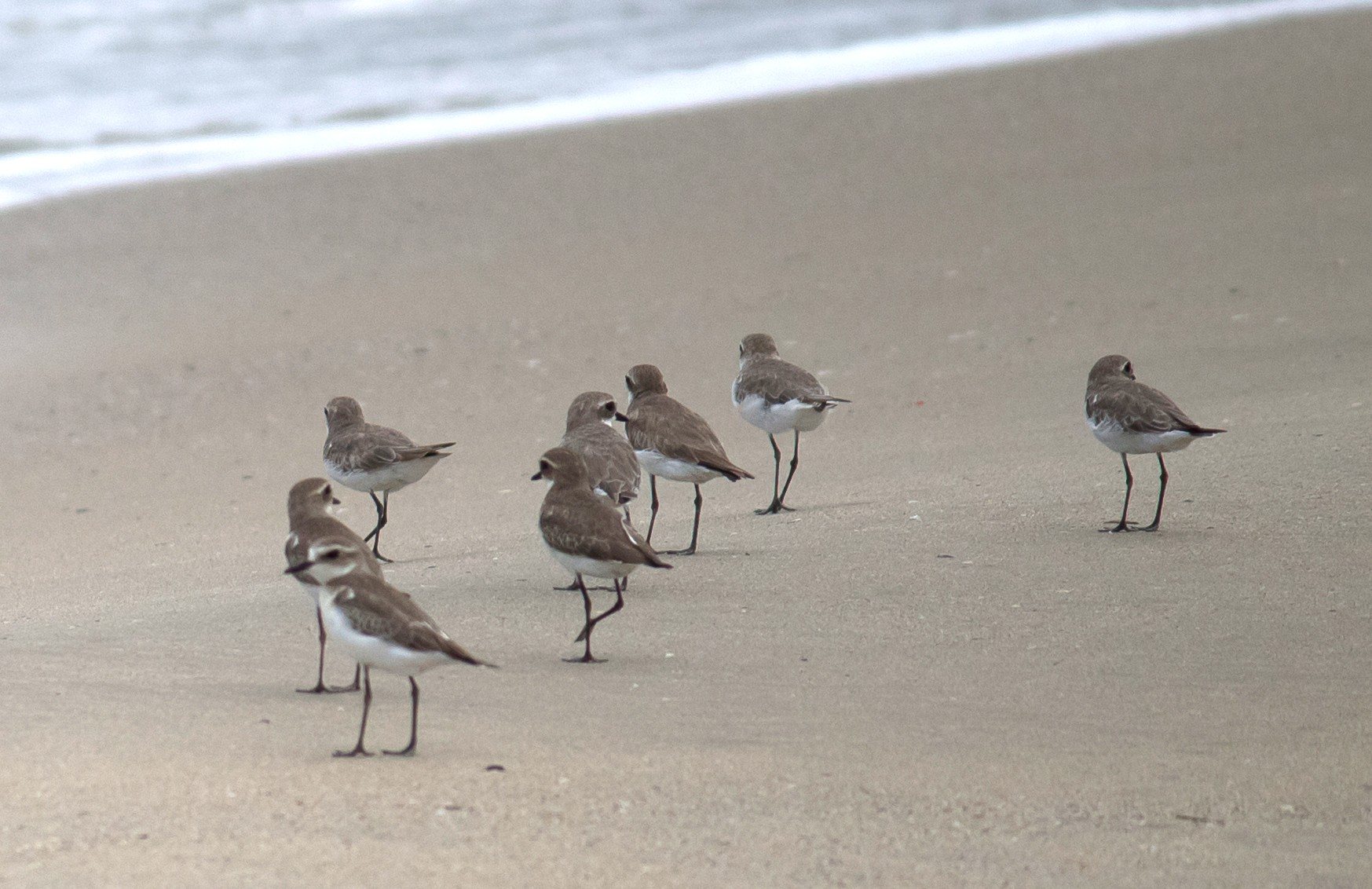 Charadrius leschenaultii - beach, alappuzha district.